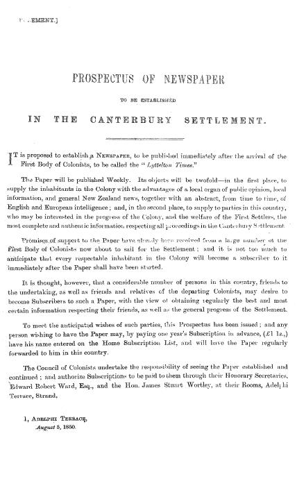 Prospectus of the Lyttelton Times from August 1850.